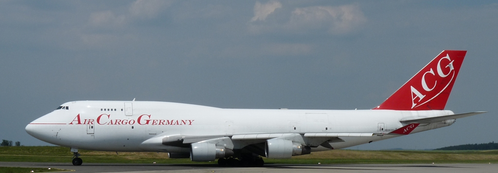 Air Cargo Germany Boeing 747-400 at Hahn airport.